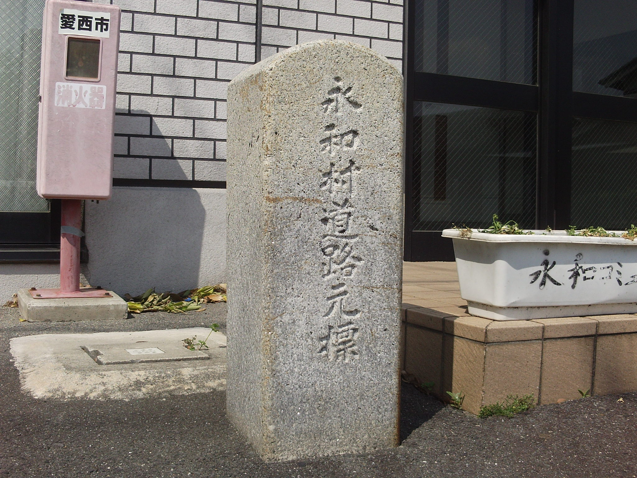 Kilometre zero of Eiwa village. (Eiwa village, Ama-gun, Aichi.)